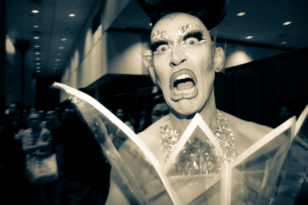 Acid Betty at RuPauls Dragcon